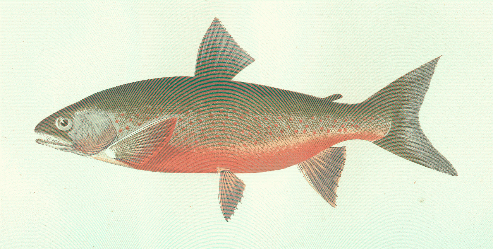 Willoughby's Char Umbra minor, Torgoch Salmo Willoughbii Subject: Chars Tag: Fish